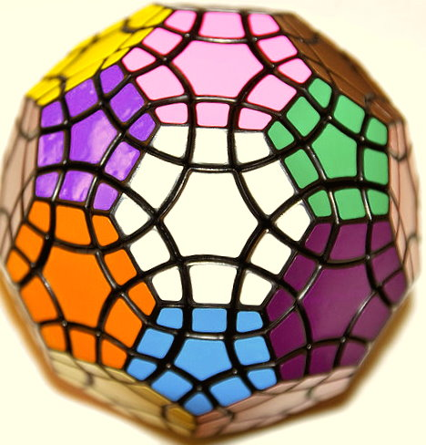 Tuttminx